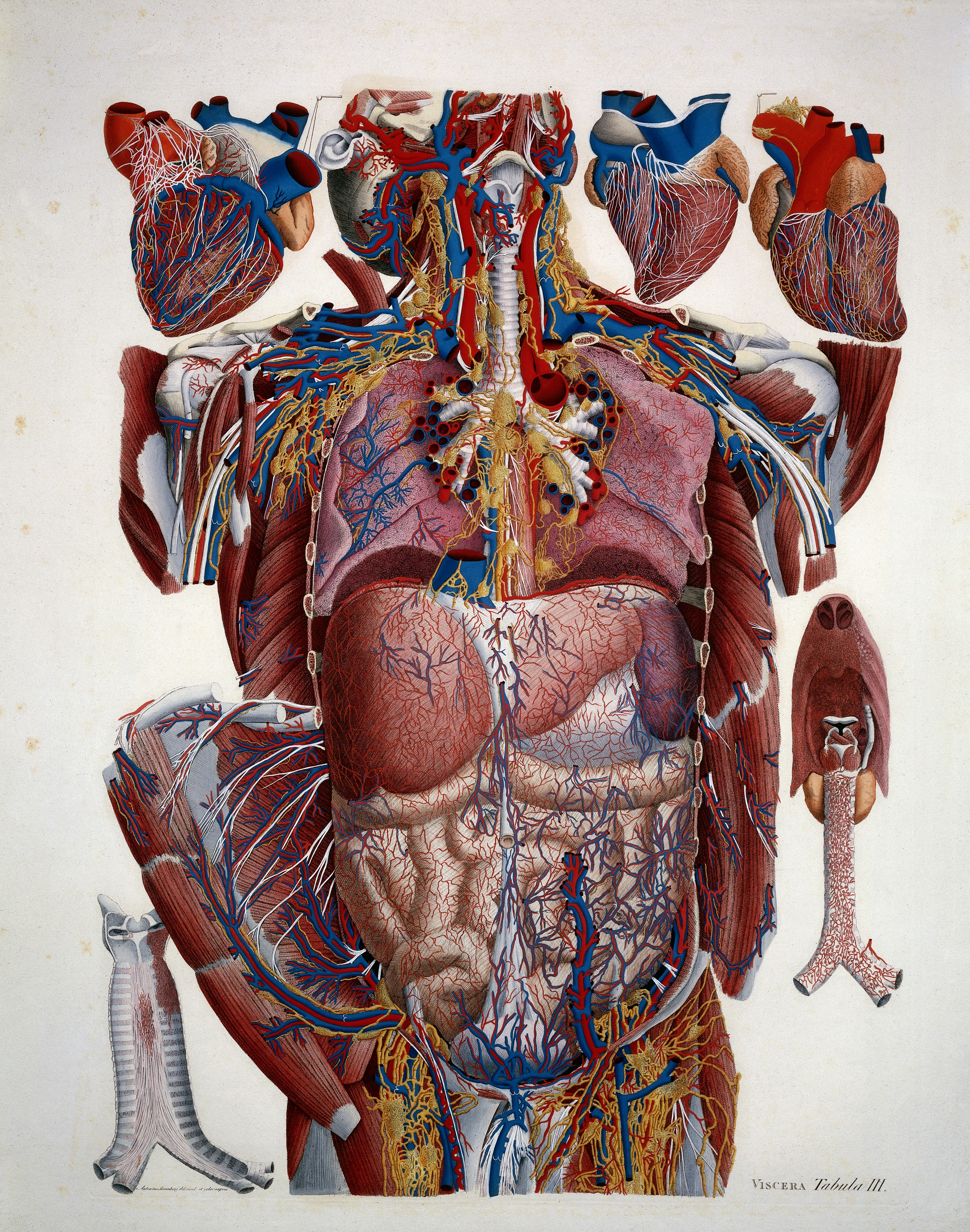 Illustration of human viscera. By Paulo Mascagni. 'exploded thorax' Paolo Mascagni was Prosector of Anatomy at the University of Siena, which meant he was responsible for leading dissection for demonstration and research. His 'Anatomia Universa' was a comprehensive work of anatomy with forty-four hand coloured plates. The main figure here is surrounded by smaller studies. At the top of the plate, the hearts have had the 'epicardium', the outer layer of heart tissue, removed to reveal the cardiac muscle. The heart at the bottom left is viewed from above to reveal the aortic valve. The smaller figures are foetal dissections revealing the umbilical artery and vein. Rare Books Keywords: Paolo Mascagni